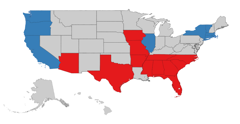 A map of U.S. states colored by their policy on sanctuary cities State prohibits sanctuary cities State encourages sanctuary cities No statewide policy This PNG graphic was created with QGIS